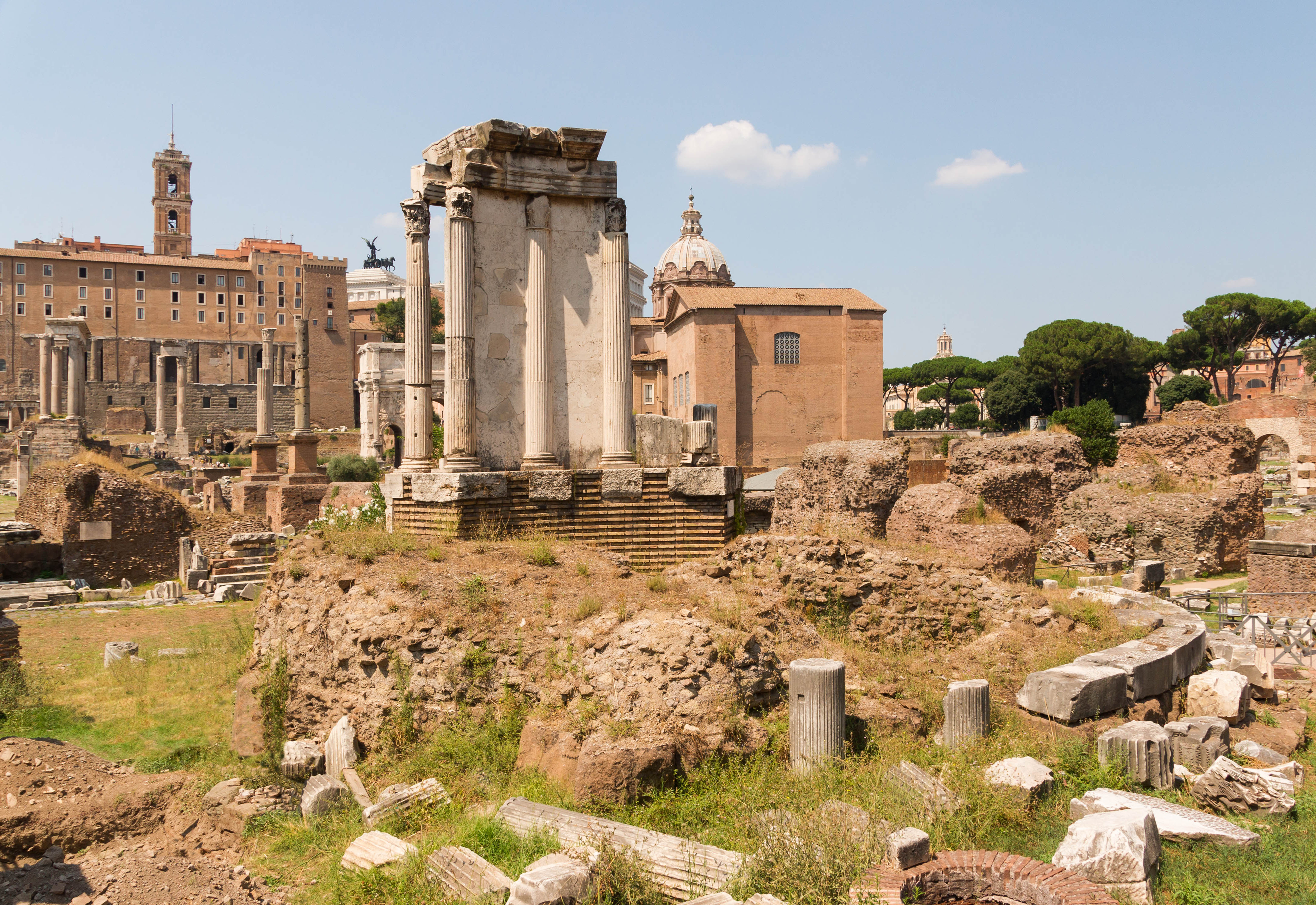 Round remains of the temple of Vesta, Forum Romanum, Rome, Italy